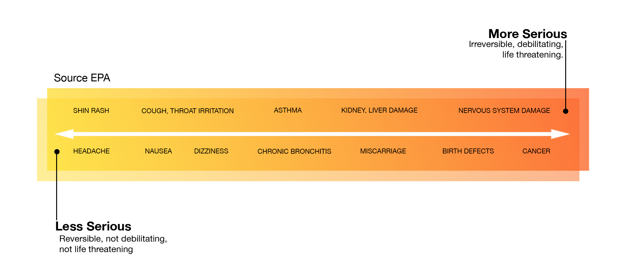 Diseases caused by poor air conditions.